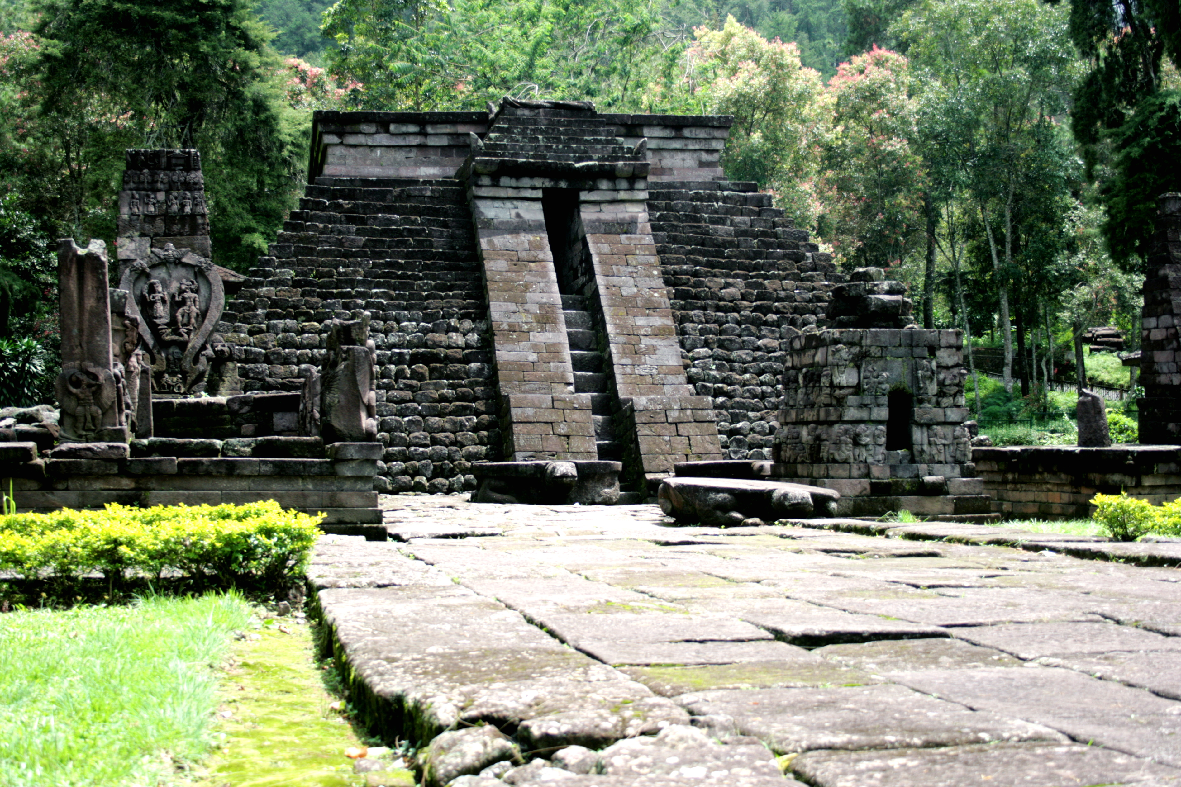 Candi Sukuh in eastern Central Java.